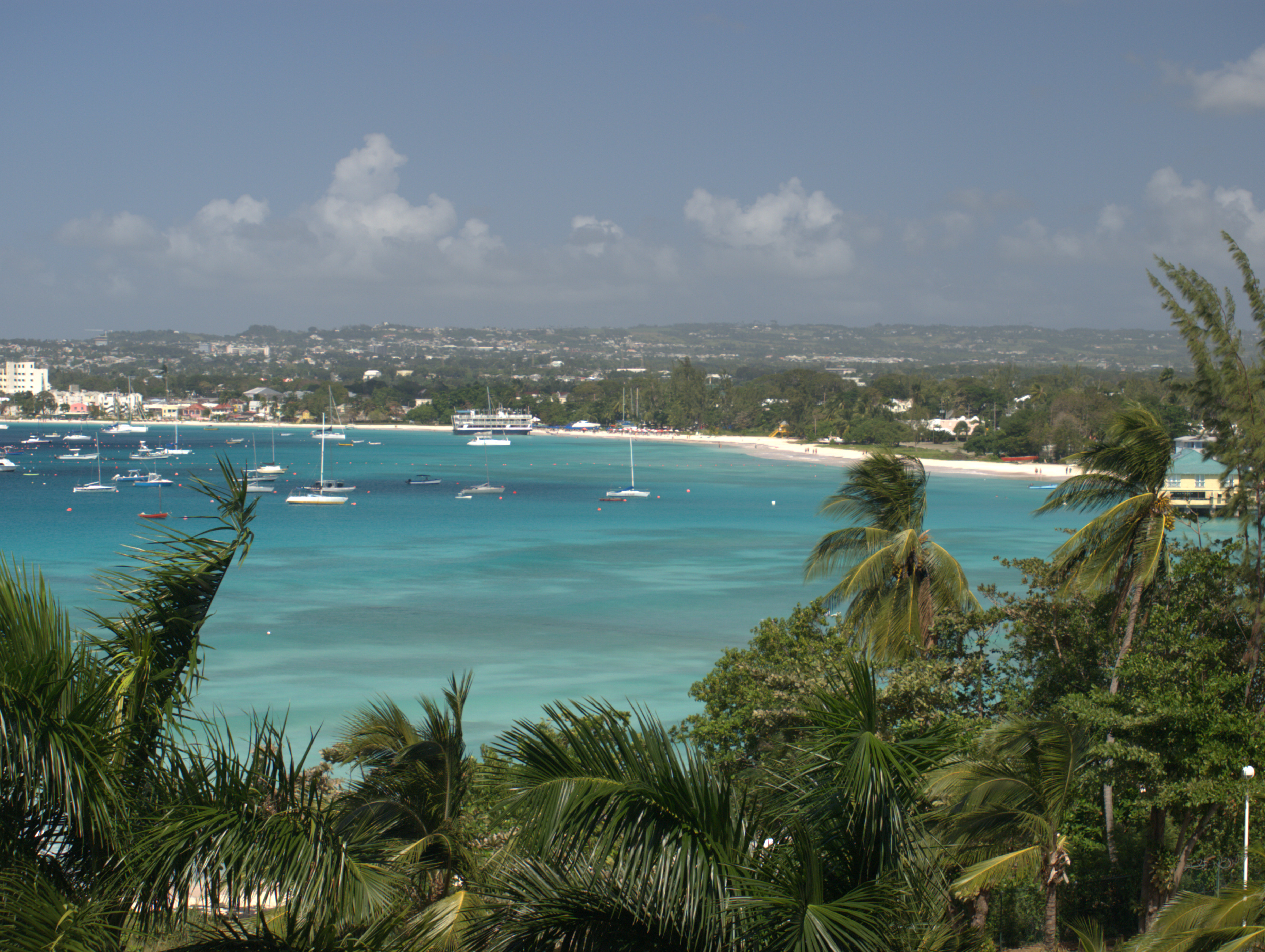 Carlilse Bay, Barbados, with Bridgetown to the left and the pier of Barbados Yacht Club visible through the trees to the right